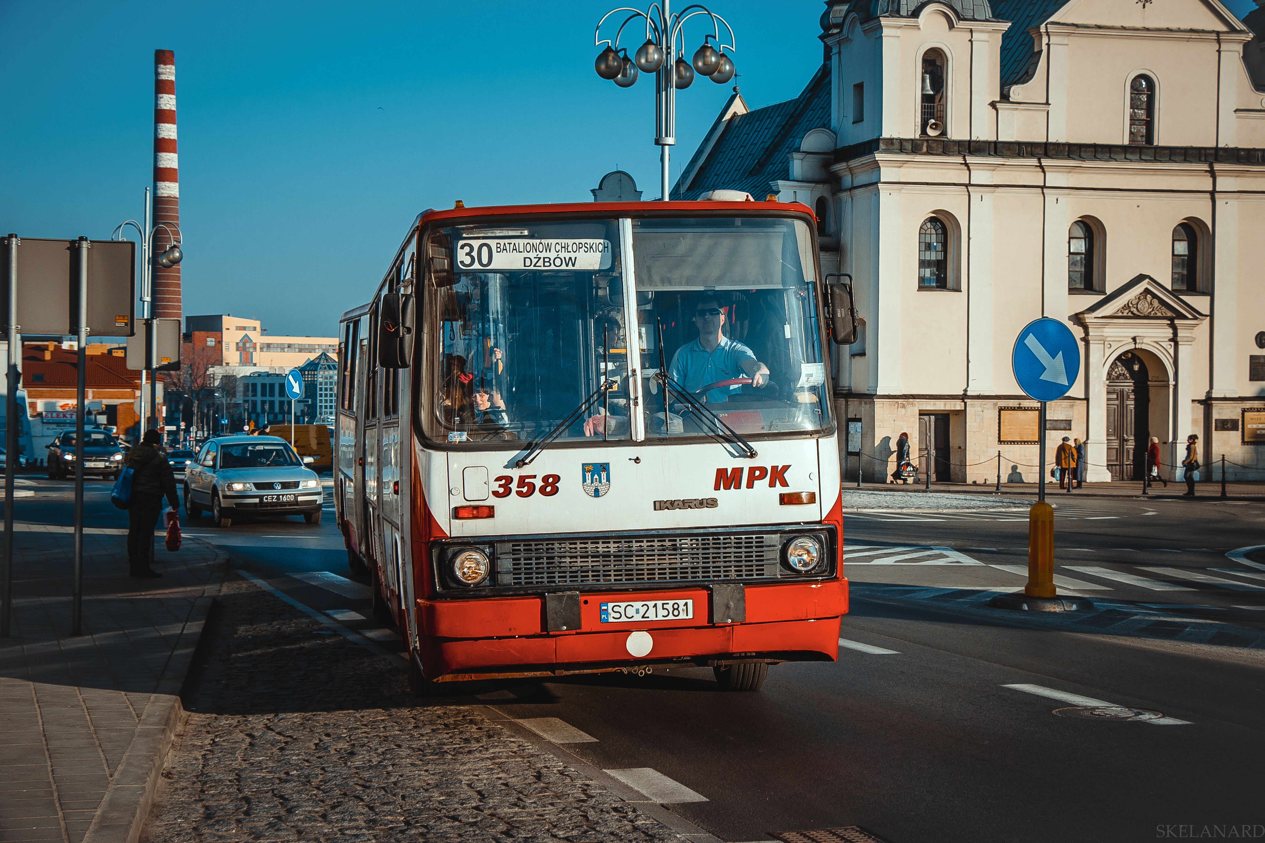 An Ikarus 280 bus of Częstochowa public transport in Daszyńskiego sqaure